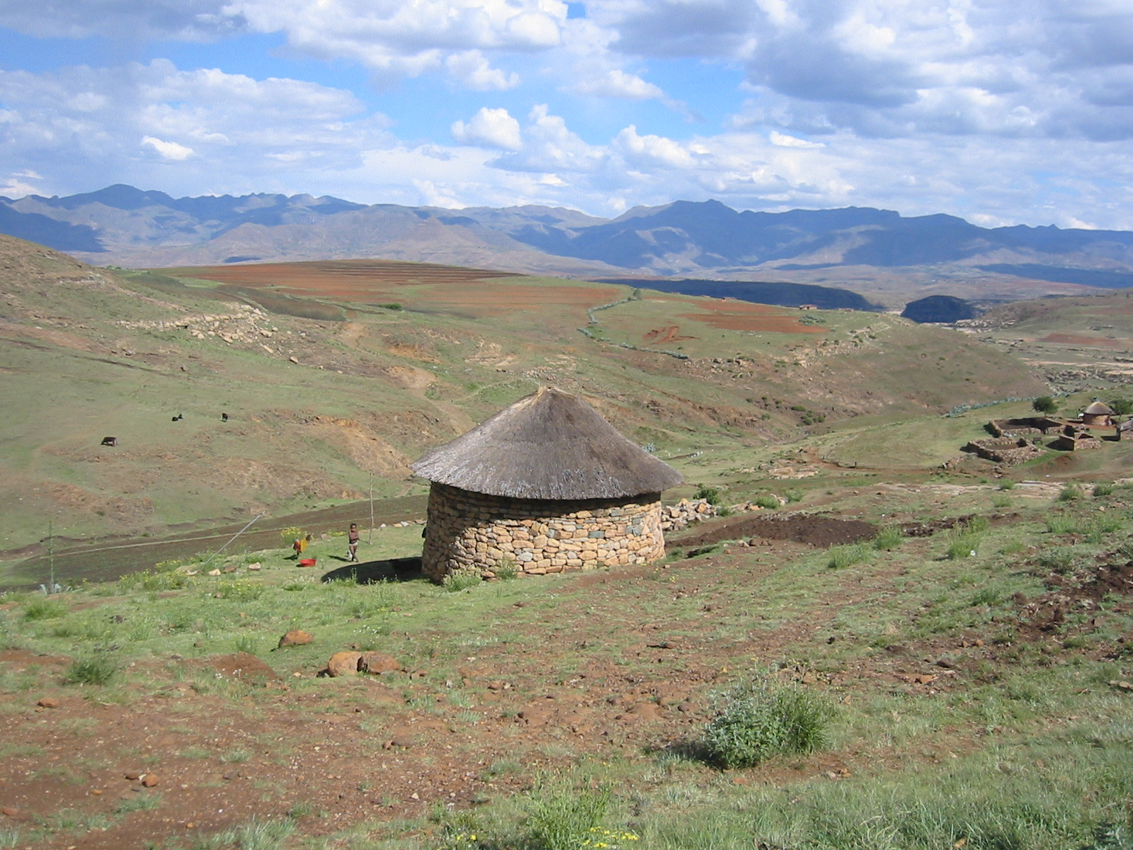 Lesotho